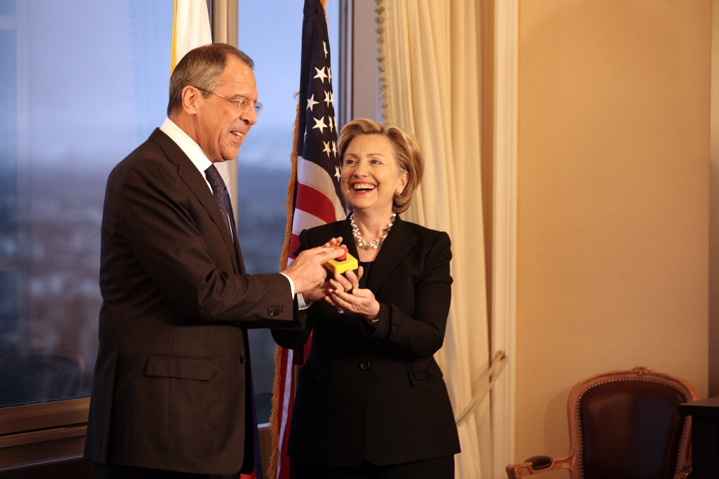 "Restart Button" offered by U.S. Secretary of State Hillary Rodham Clinton to Russian Foreign Minister Sergey Lavrov in Geneva, Switzerland March 6, 2009. [State Department photo]